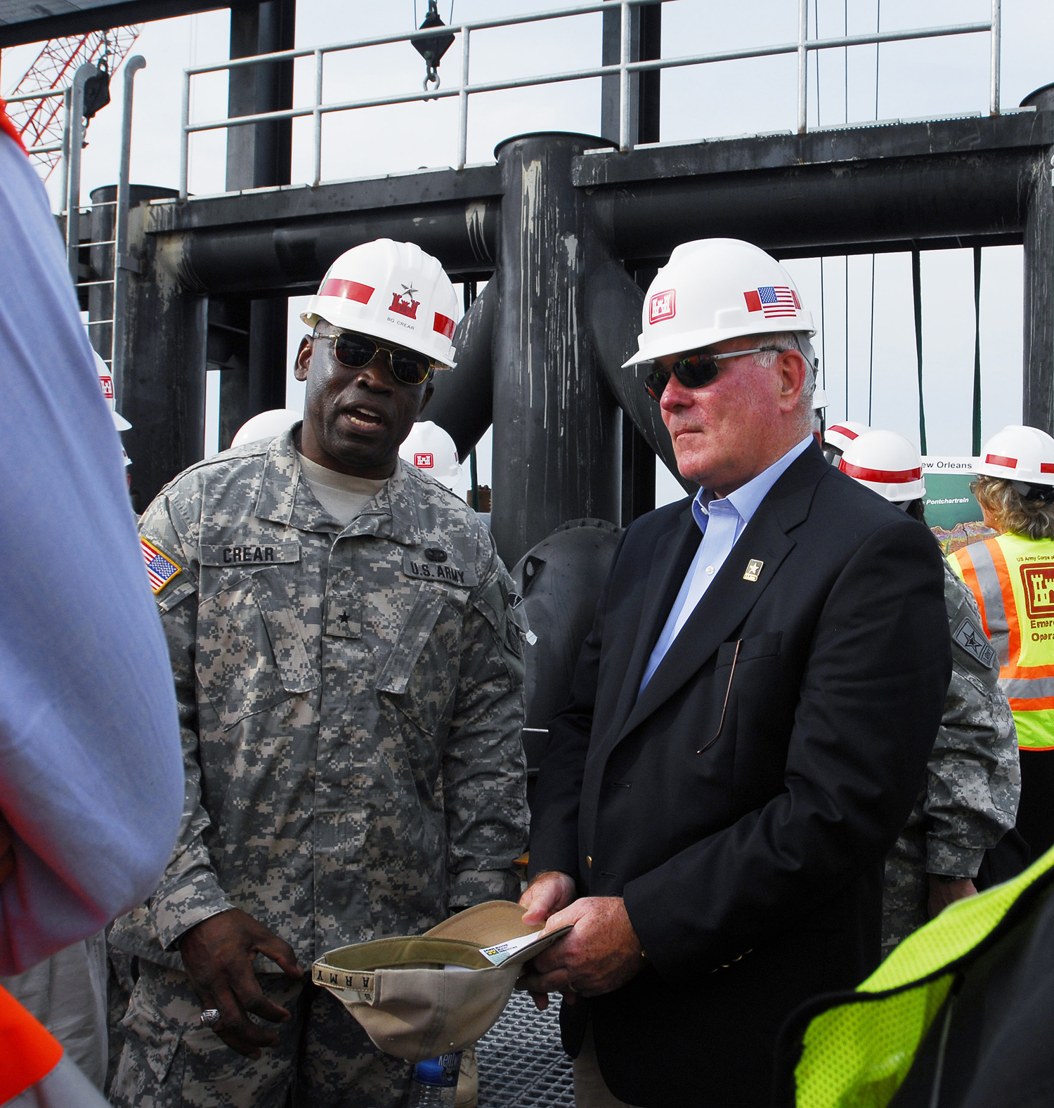 Secretary of the Army Francis J. Harvey discusses U.S. Army Corps of Engineers operations in New Orleans with Brig. Gen. Robert Crear, commander, Mississippi Valley Division, USACE. Harvey met with parish executives and Corps officials Oct. 2 in New Orleans.